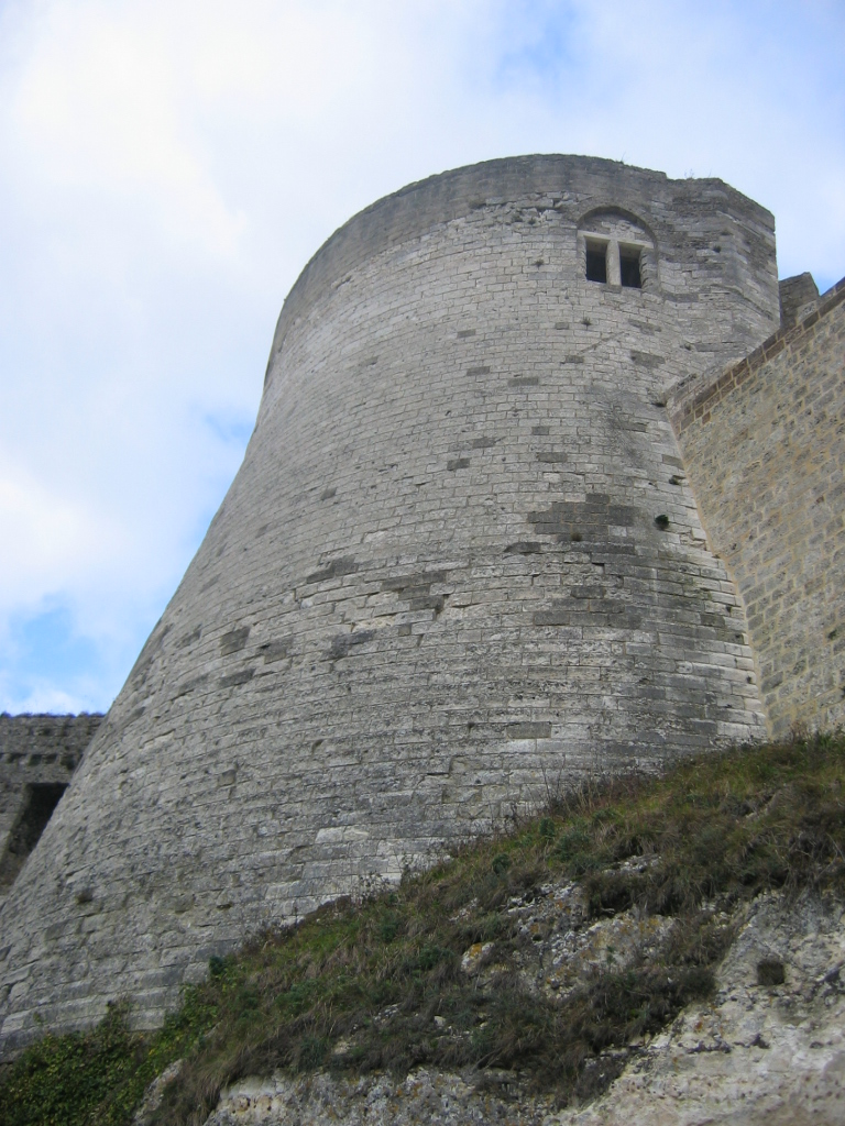 Part of the donjon of Château-Gaillard, Eure, Normandy.